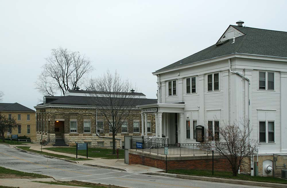 Historic buildings on the Milwaukee Veterans Administration Grounds. Part of the "Northwestern Branch, National Home for Disabled Volunteer Soldiers Historic District."